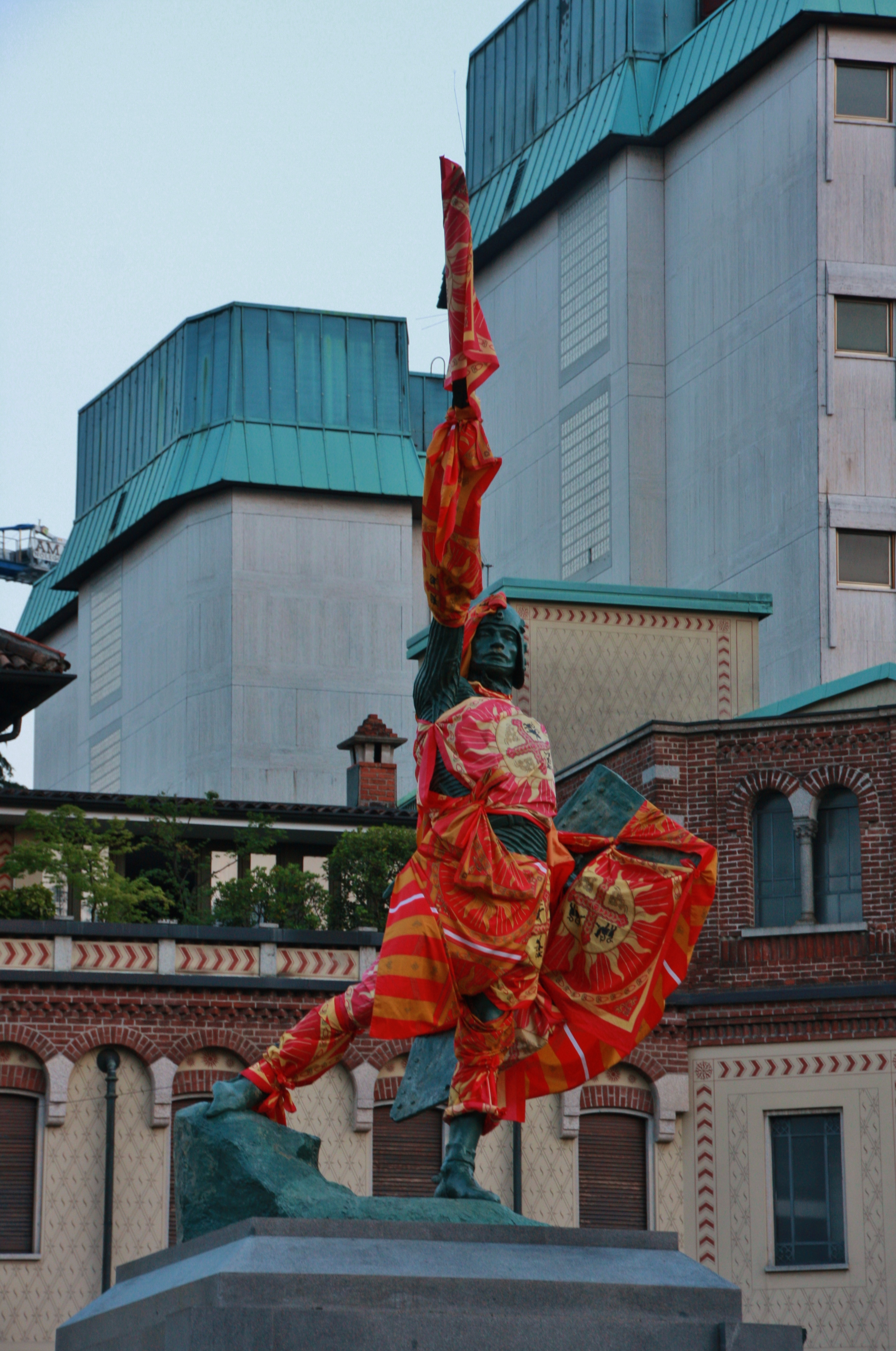 Picture of the monument Monumento al Guerriero (litterally: monument to the warrior. The statue is also known as the monument to Alberto da Giussano) in Legnano. The statue is dressed with the flags of the contrada (district/ward) Legnarello which won the Palio di Legnano horse race in 2015. The statue is in the square Piazza Monumento in Legnano and was made by the sculptor Enrico Butti. The picture was taken on Juni the 4th 2015.